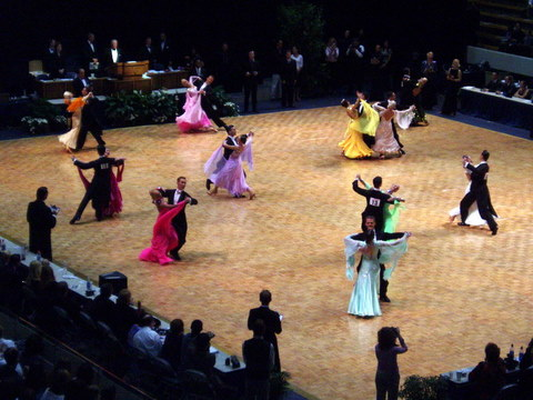 2005 professional ballroom dance championships. Photo taken at Brigahm Young University, Provo, UT. For use in ballroom dance, competitive dance, and dancesport topics. Photo taken by Porfirio Landeros. Photo (c) Porfirio Landeros, Kwixite Media[1].